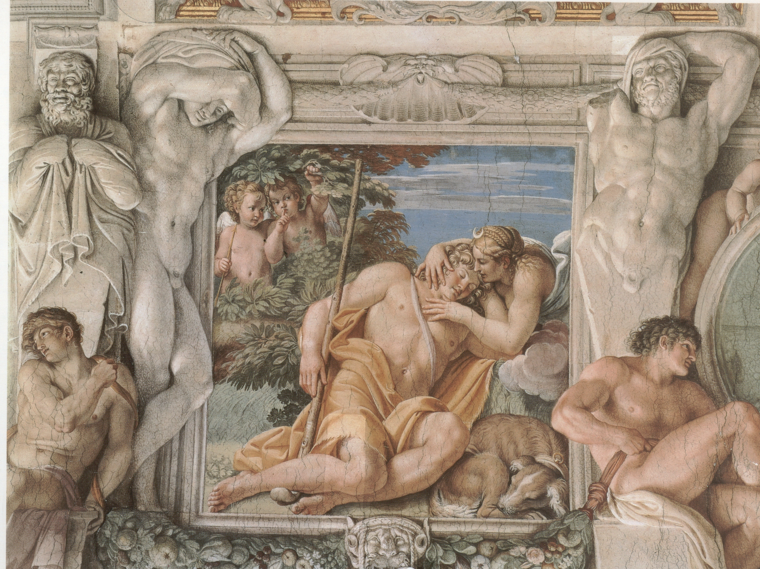 Diana_and_Endymion_-_Annibale_Carracci_-_1597_-_Farnese Gallery